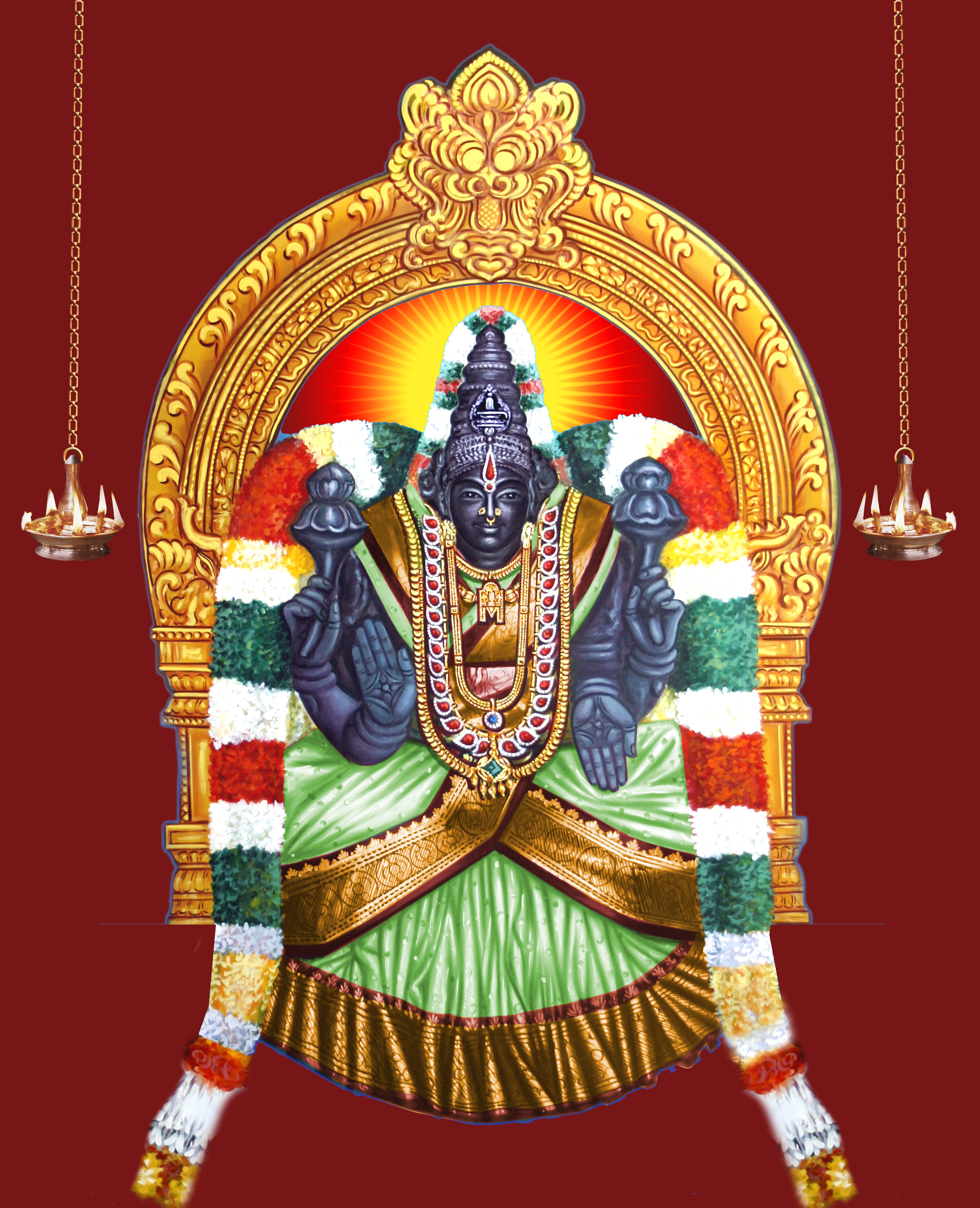 Mahalakshmi vellur